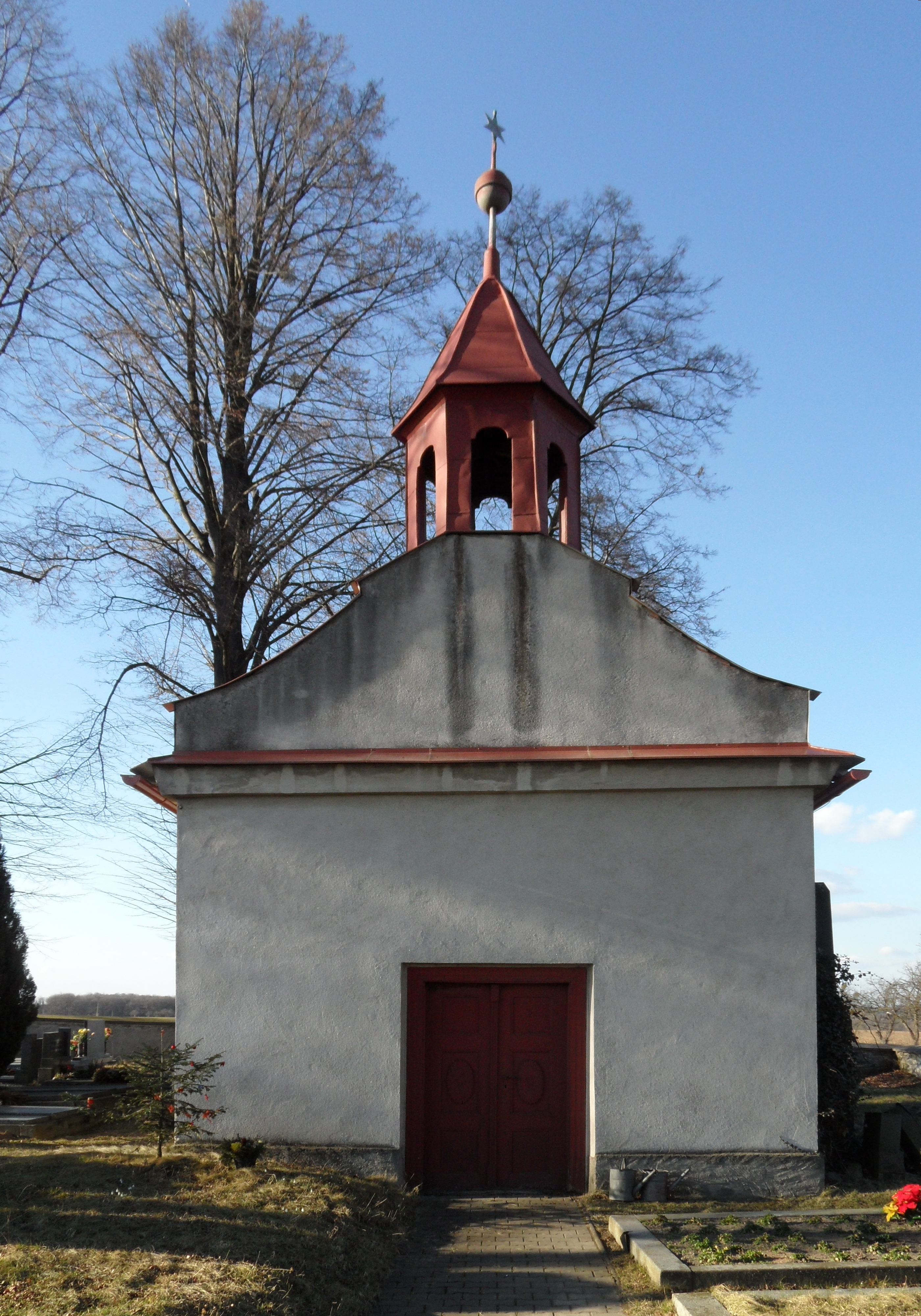 Zvěstovice A. Chapel at the Cemetery, Havlíčkův Brod District, the Czech Republic.